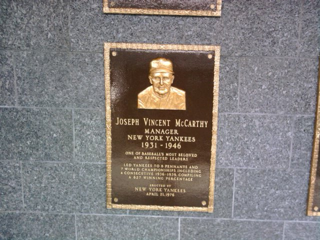 Joe McCarthy ' Plaque in Monument Park, in Yankee Stadium.